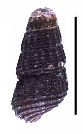 Photo of an abapertural view of a holotype shell of Tylomelania hannelorae. Holotype MZB Gst. 12.114, scale bar is 10 mm.